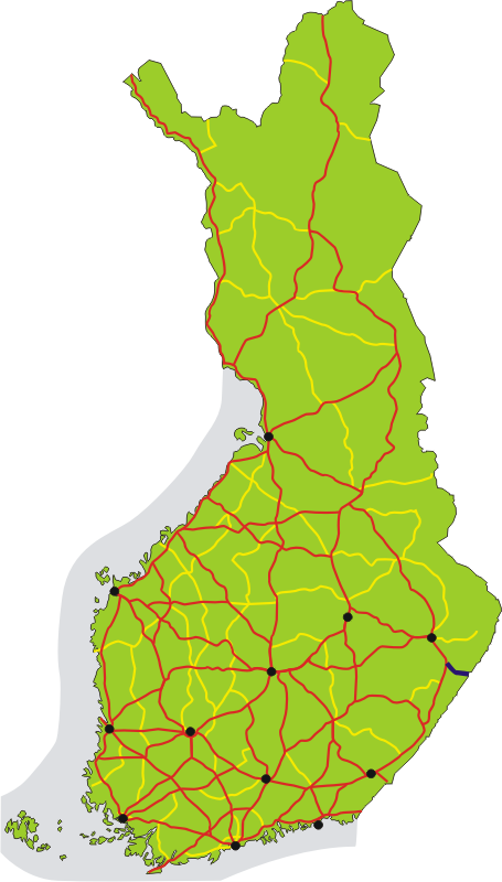 Map of the former main road 70 (now part of the main road 9) in Finland, shown in dark blue. The other 1st class main roads (numbers 1–29) are red, 2nd class main roads (numbers 40–98) yellow. Black dots show the 12 biggest urban areas.